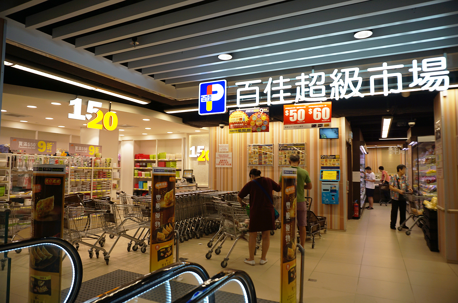 Lei Tung Commercial Centre in Ap Lei Chau, Hong Kong.